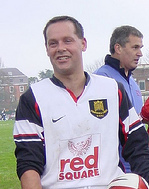 Andy Reed MP for Loughborough and Family at Rugby Match, April 2010.